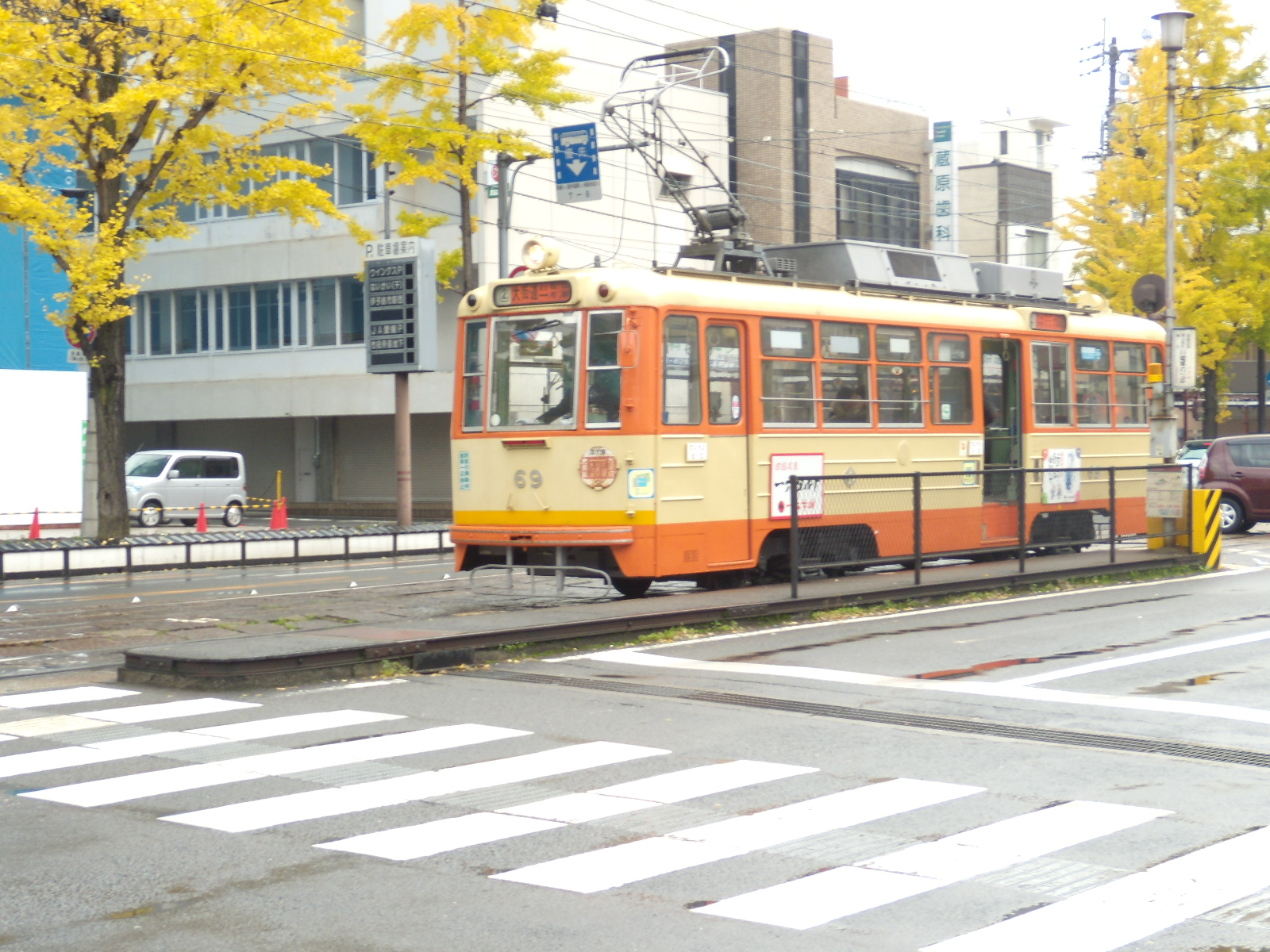 Iyo Railway Minami-Horibata Station, platform for Matsuyama-Ekimae and Okaido